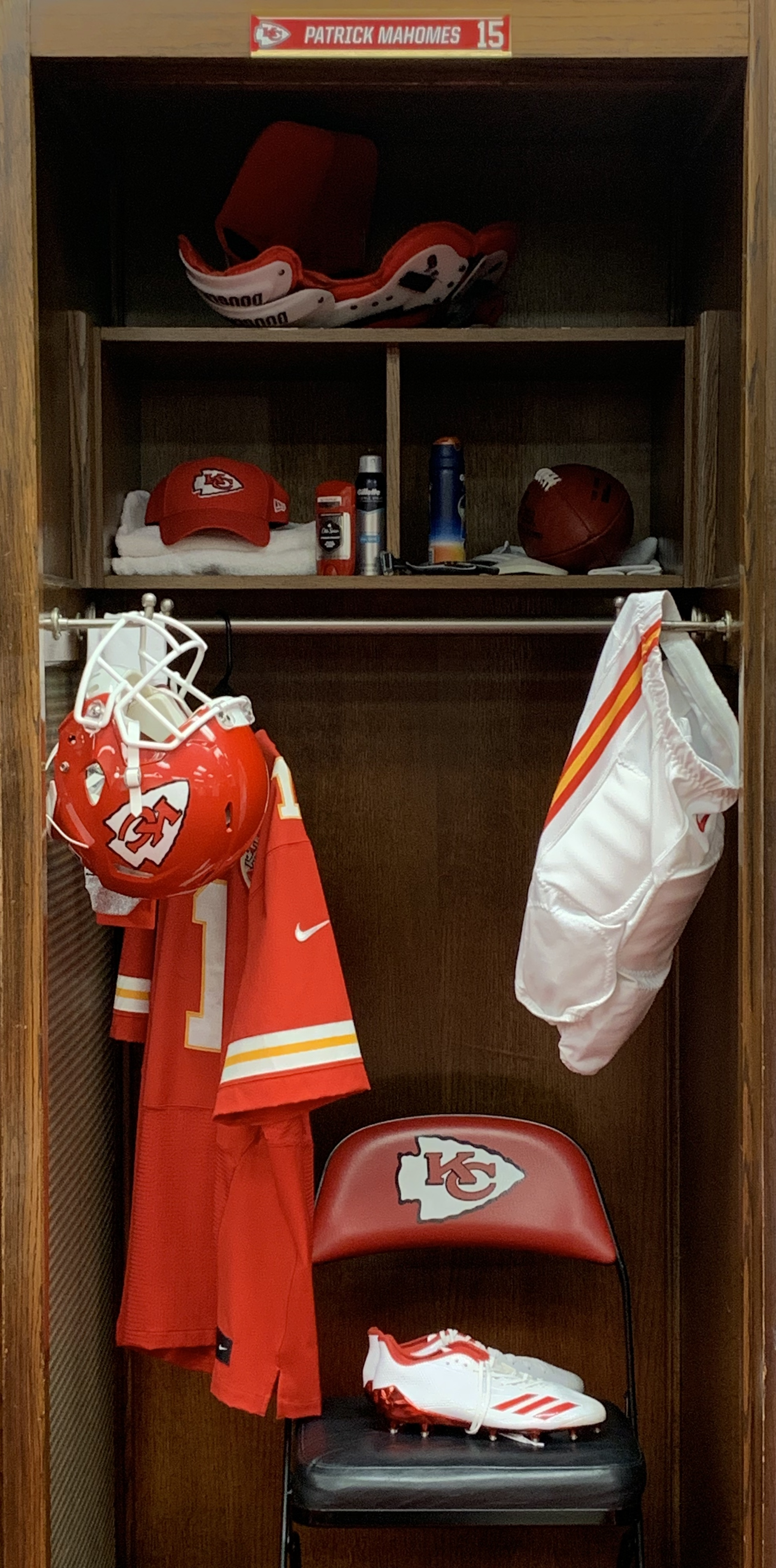 Patrick Mahoney’ locker at Arrowhead Stadium as seen set up for tours.